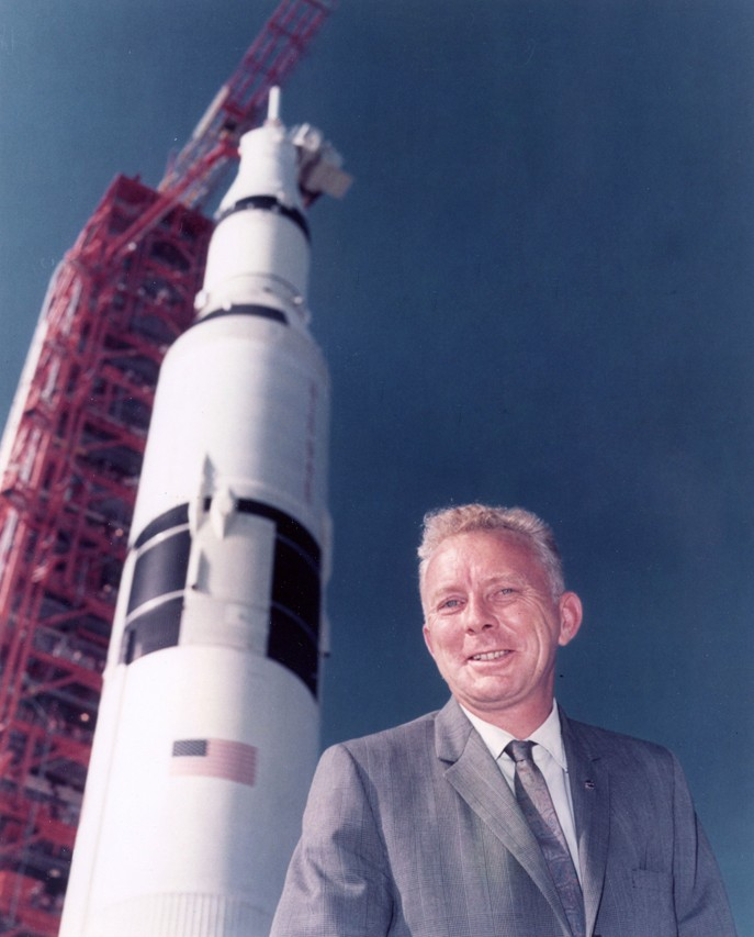 Color photo of Paul C. Donnelly, NASA manager, at the Apollo 11 rollout in 1969